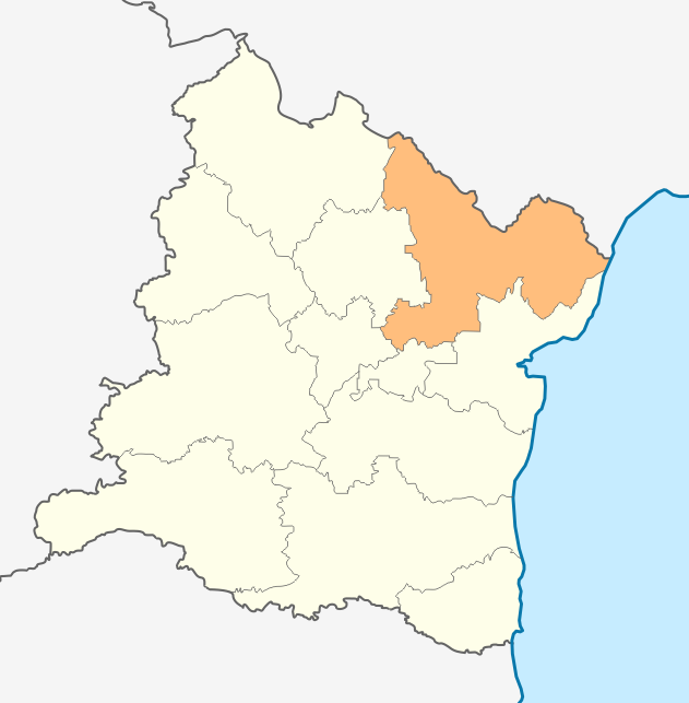 Map of Aksakovo municipality, Varna Province